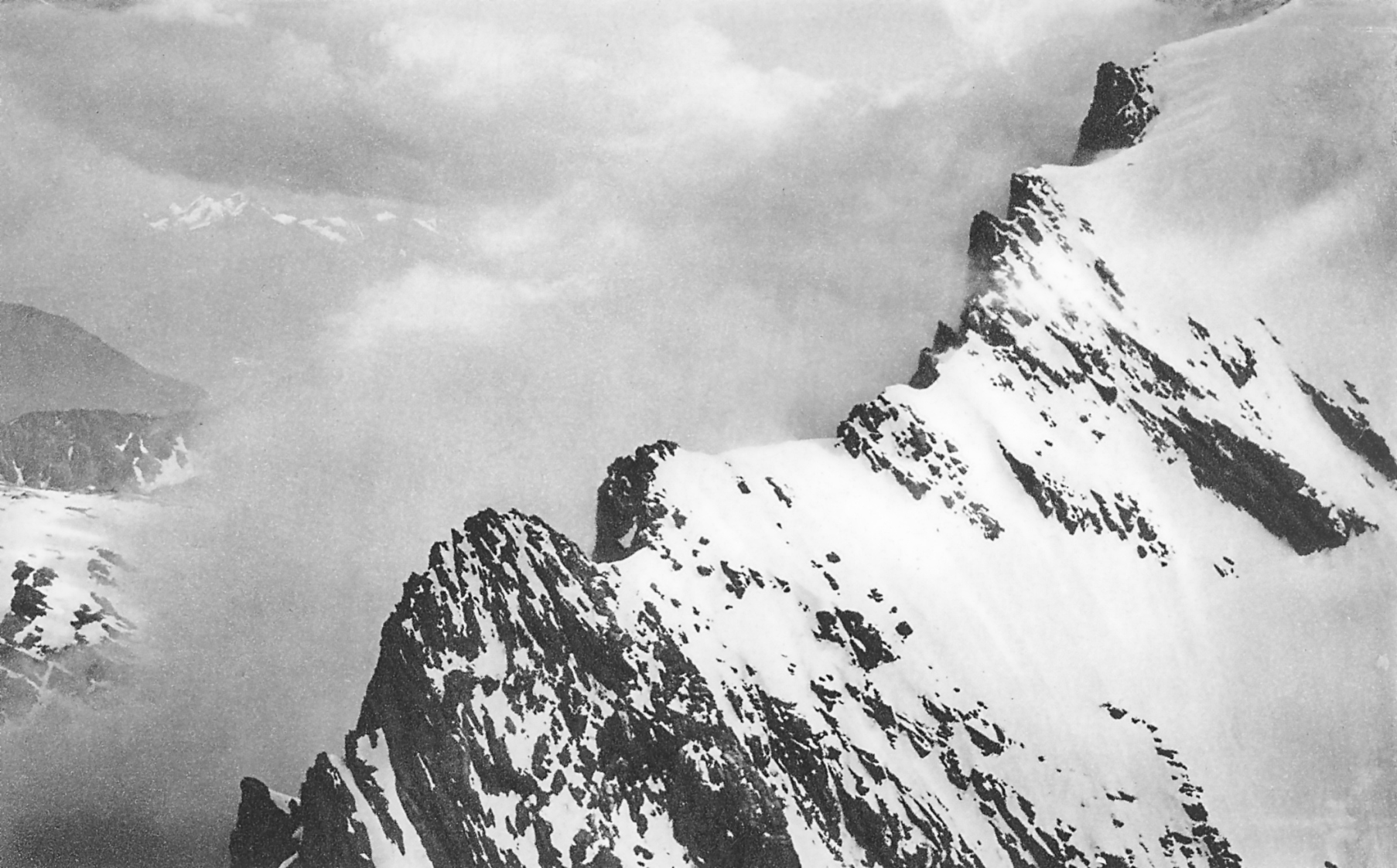 The north ridge of the Balmhorn (3698m) in the Bernese Alps, Switzerland, photographed from a balloon.